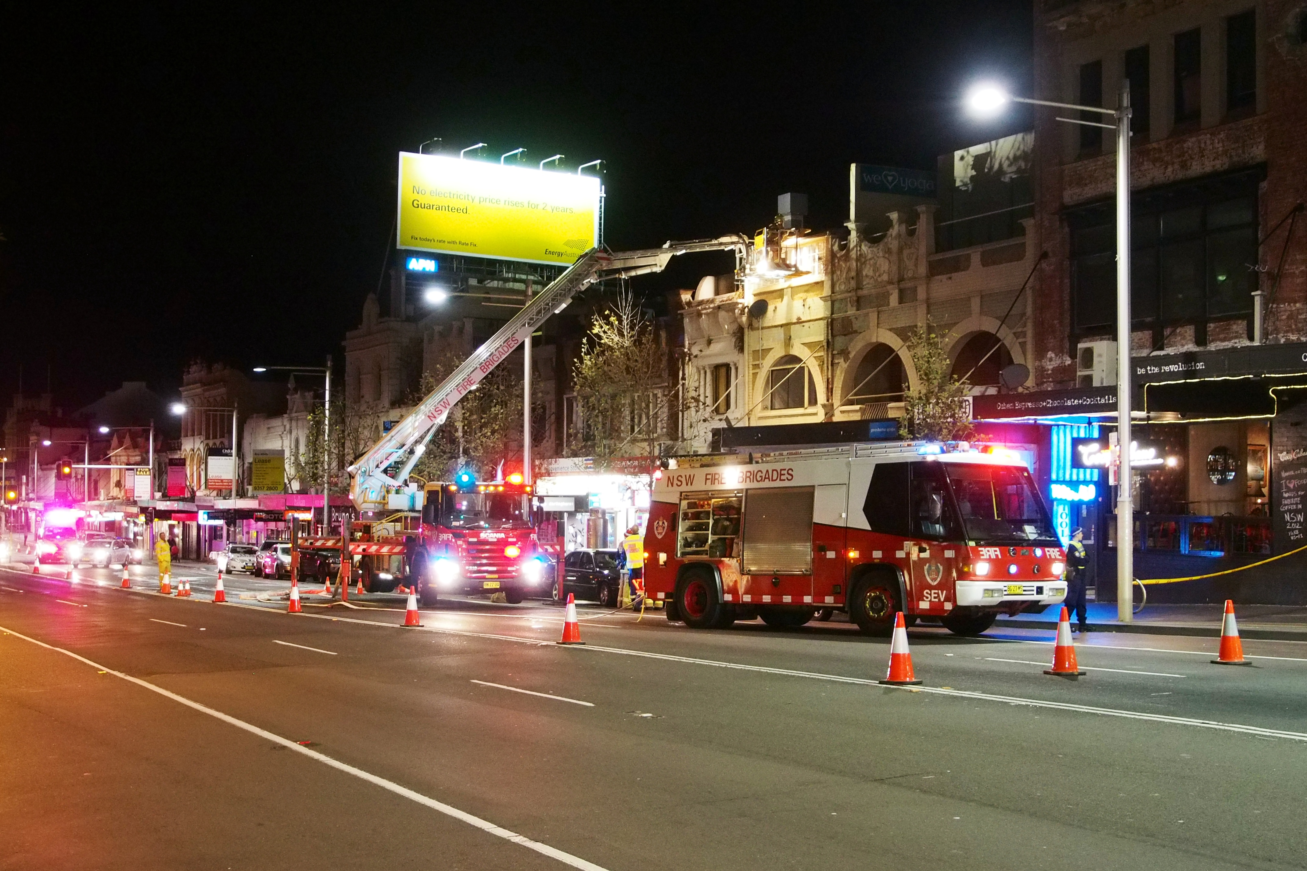 An intervention section of the New South Wales Fire Brigades in action. Paddington/Sydney, July 2012